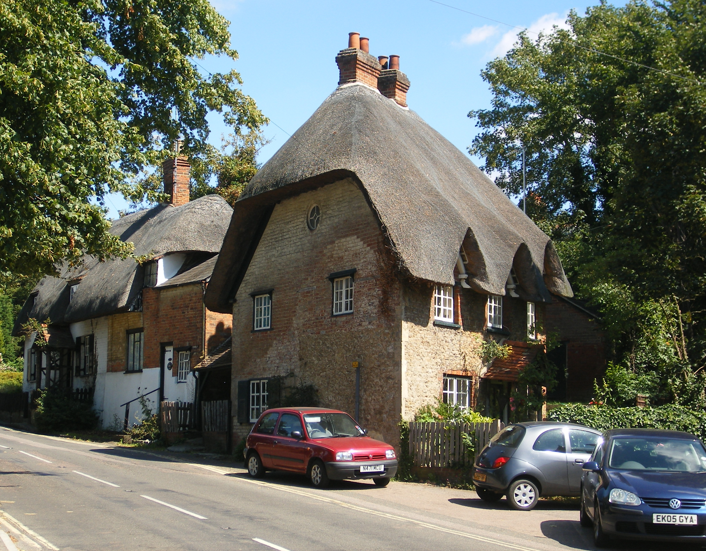 Another group of pretty cottages in the village.